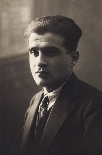 Ahmet Hamdi Tanpınar in his early days, Turkish poet, novelist, literary scholar and essayist.